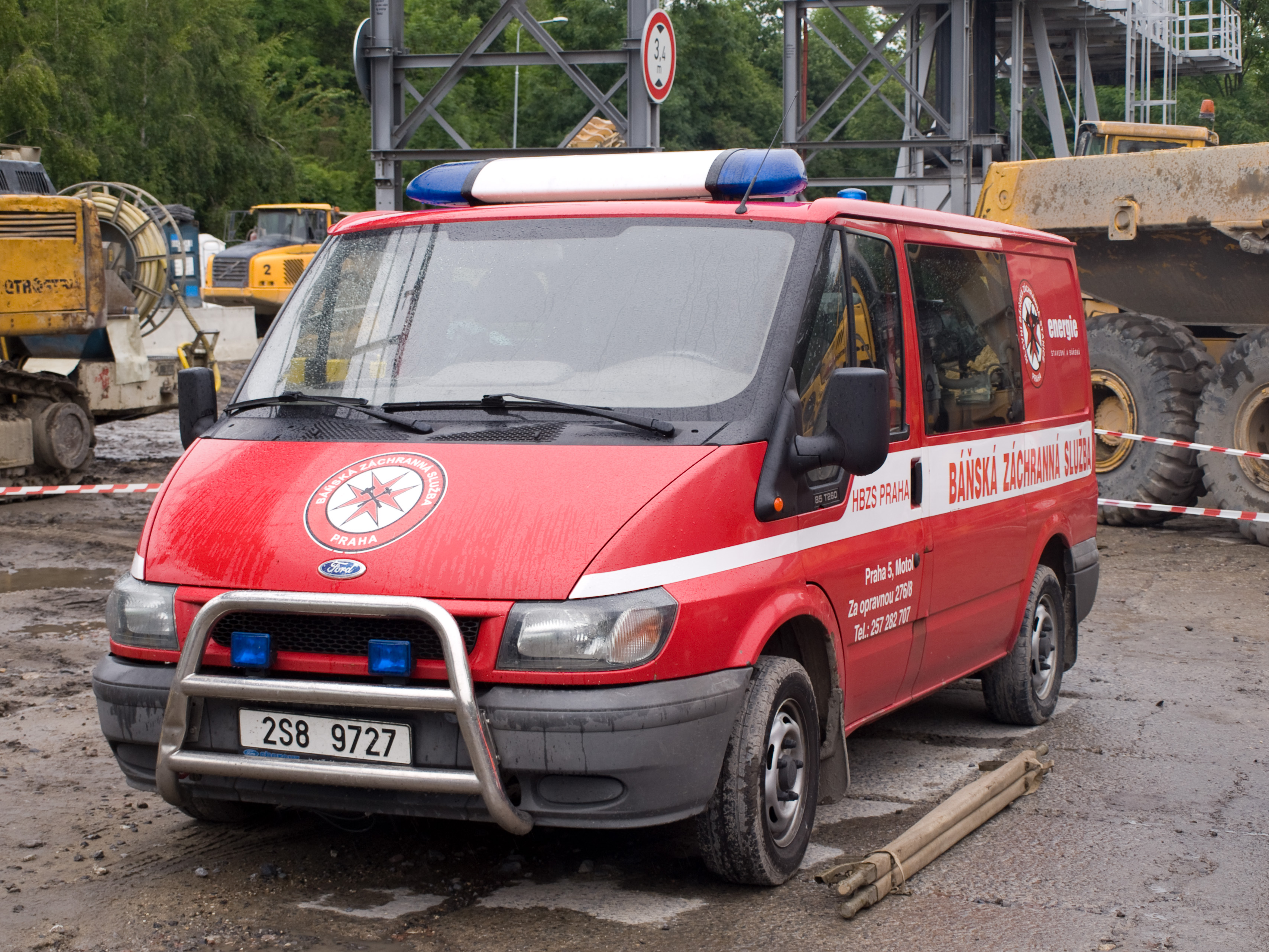 Ambulance of mining emergency, as seen during the open doors day in Vypich metro construction site of new section V.A metro, Prague 6